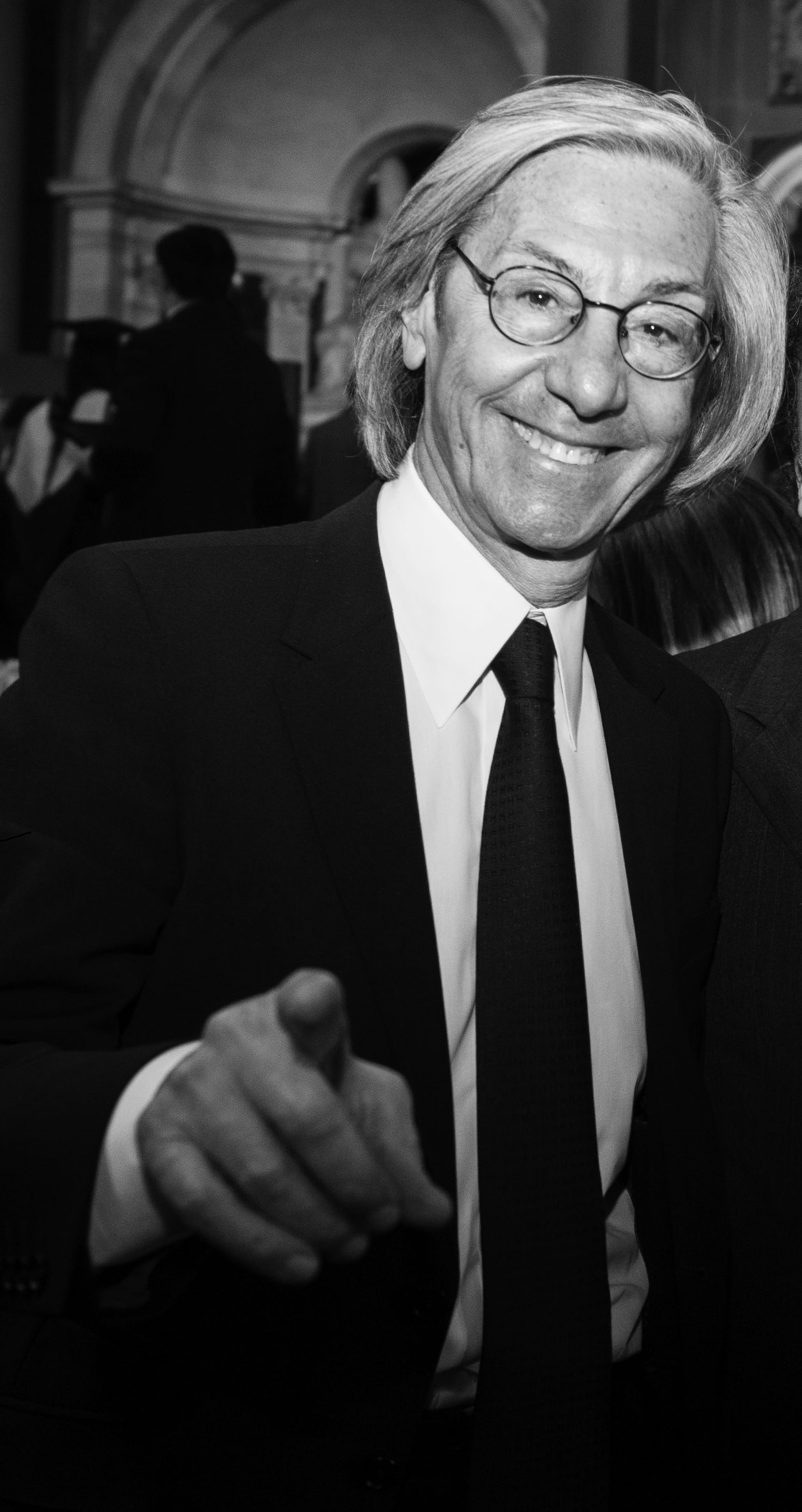 European School of Economics Founder and President Elio D'Anna at the April 2013 Graduation Ceremony, Florence, Italy